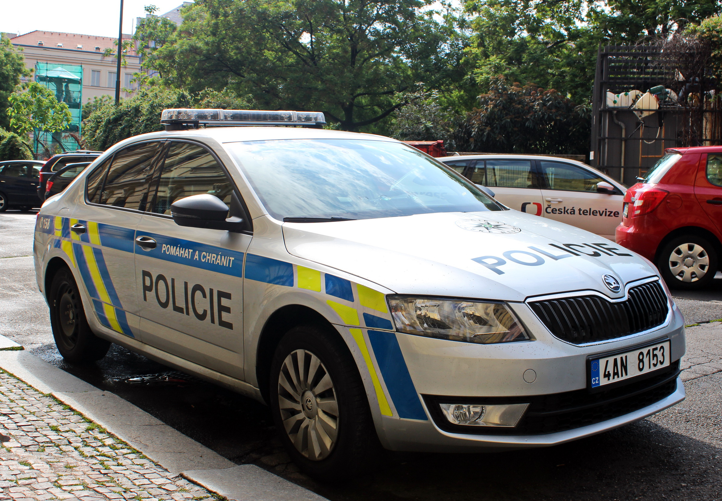 Škoda Octavia of Czech police in Prague 2016